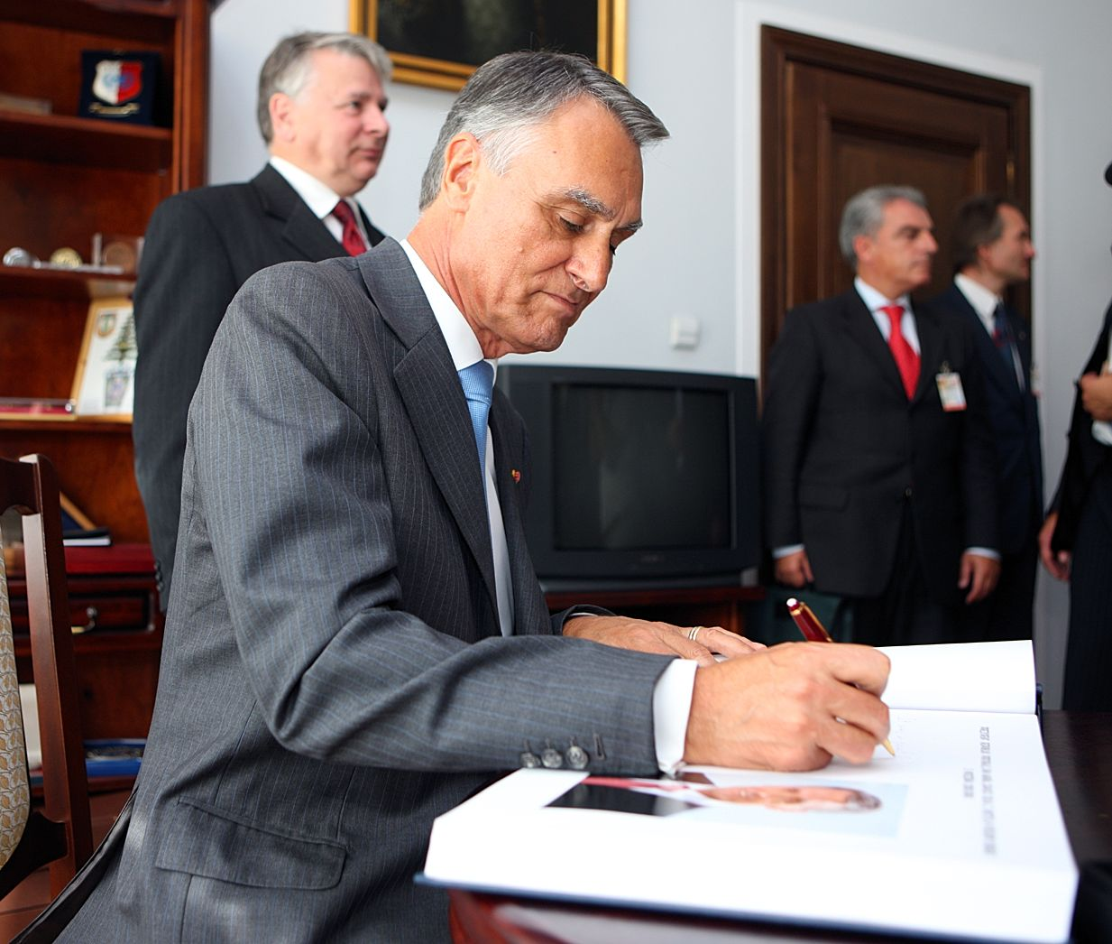 President of Portugal Aníbal Cavaco Silva in the Polish Senate